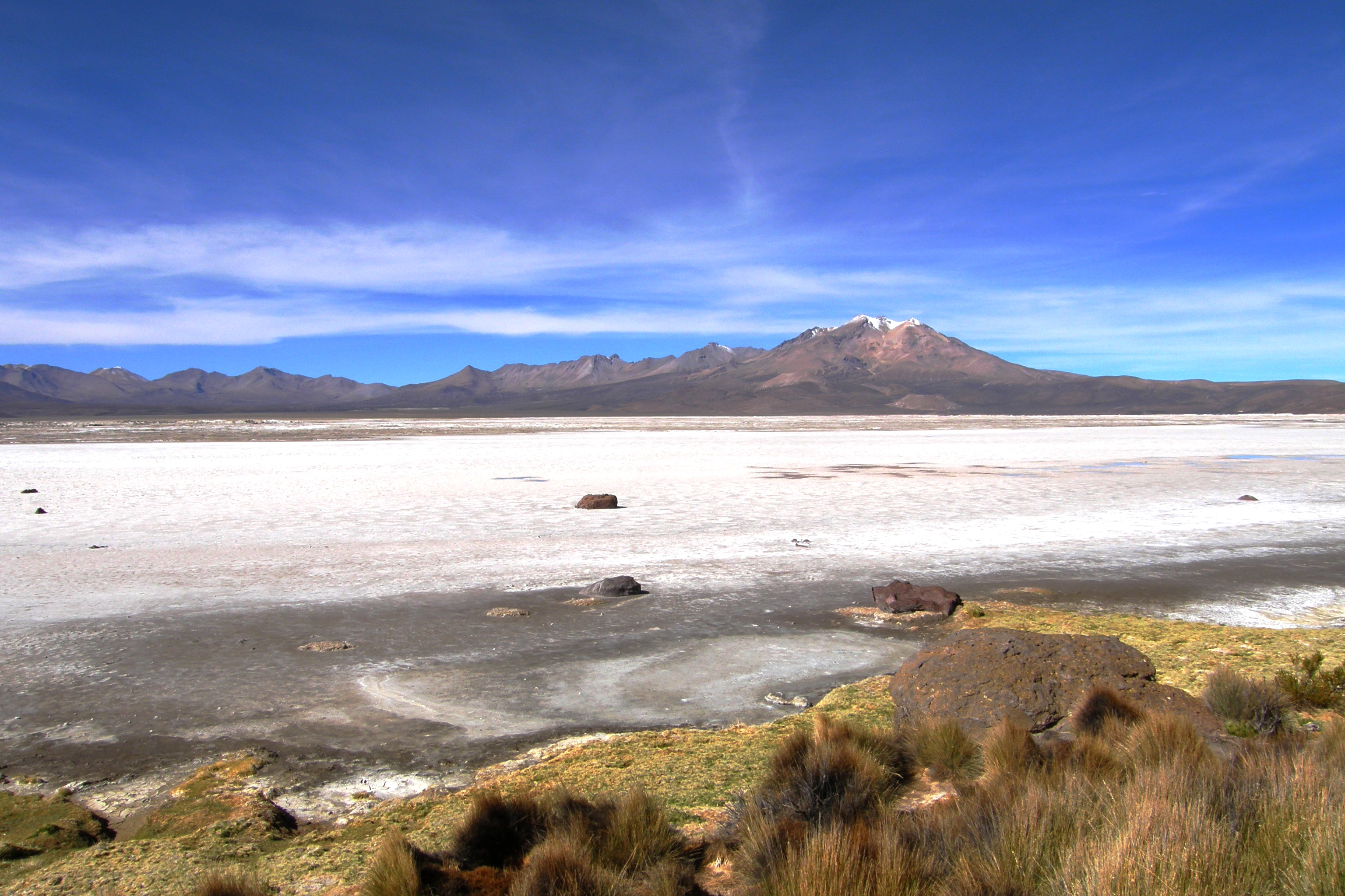 Country Chile, Region of Arica y Parinacota, Province of Parinacota, Municipality of Putre, Place Salar de Surire, photo taken around 9:30 am, showing the salar and the Cordillera of the Andes, altitude of the salar 4245 meters.